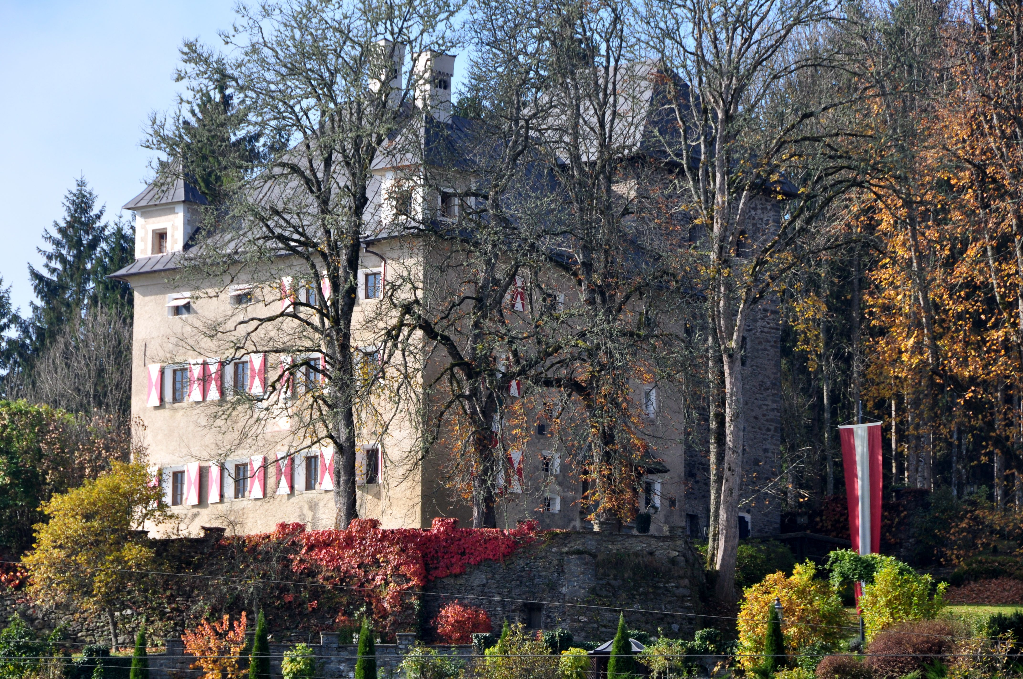 Castle Thurnhof in Zweinitz #11, market town Weitensfeld, district Sankt Veit an der Glan, Carinthia, Austria, EU